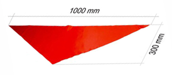 red Young Pioneers neckerchief